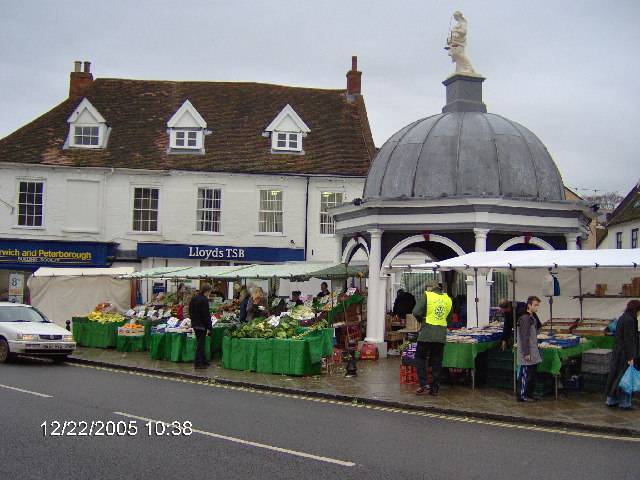 Buttercross Market , Bungay. Bungay's thriving market place during the last market before Christmas.